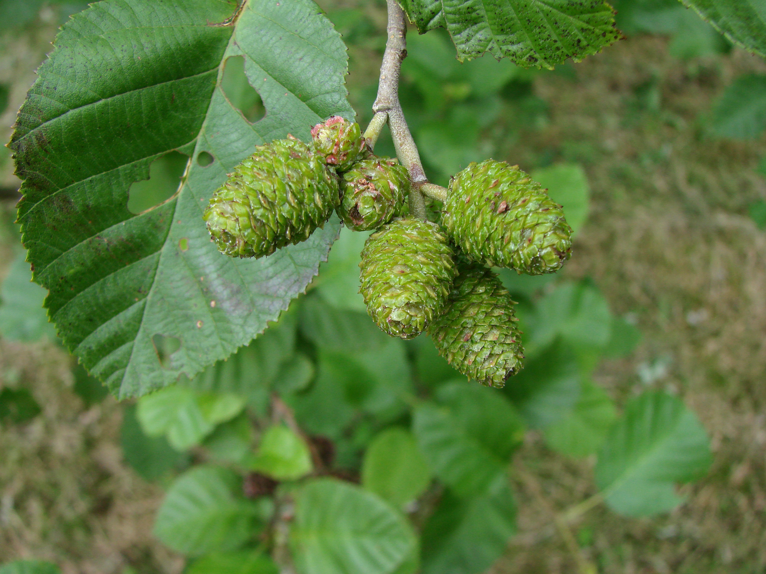 Fruit (non mature) of Alnus incana.